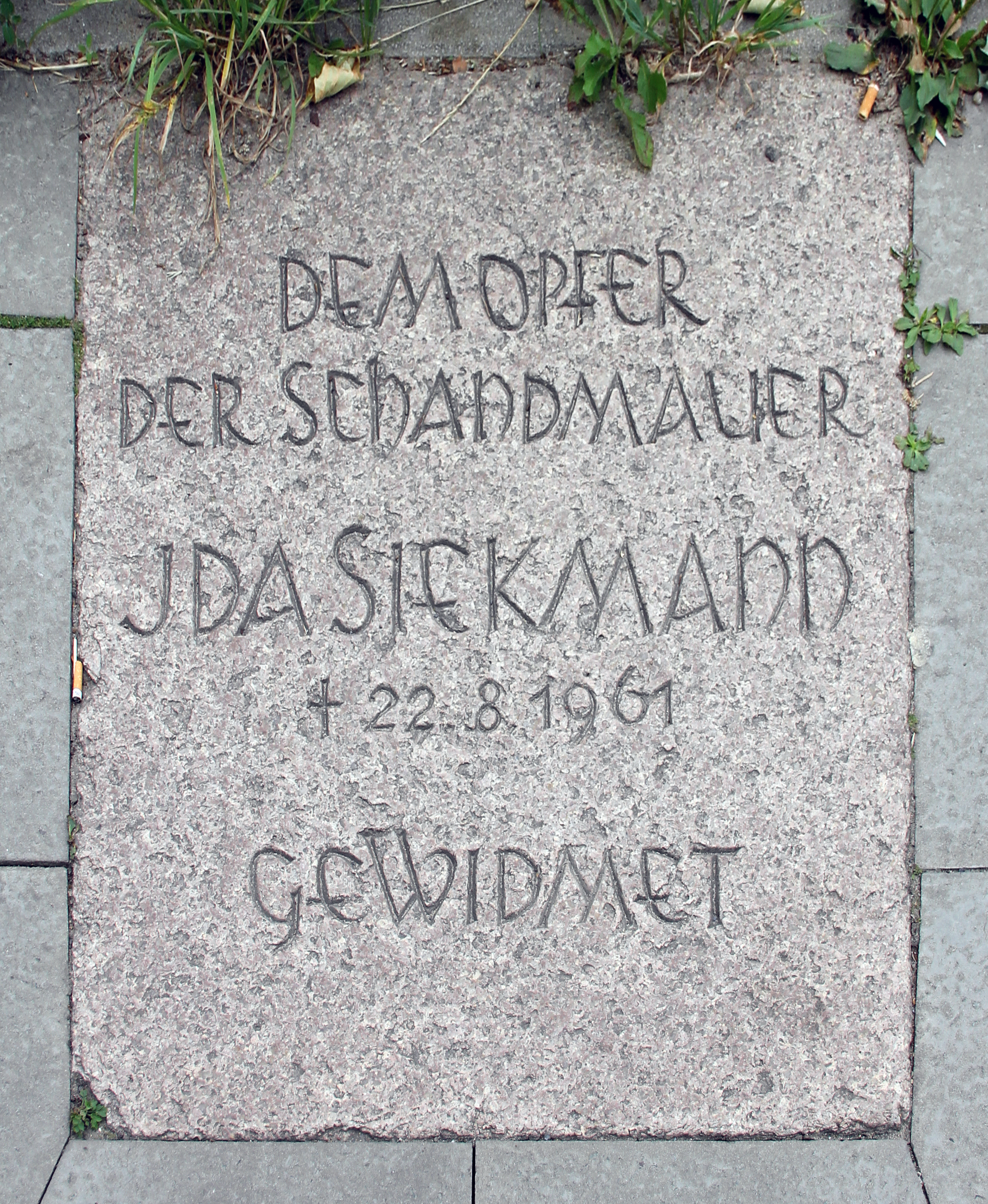 Memorial plaque, Ida Siekmann, Bernauer Straße 48, Berlin-Mitte, Germany